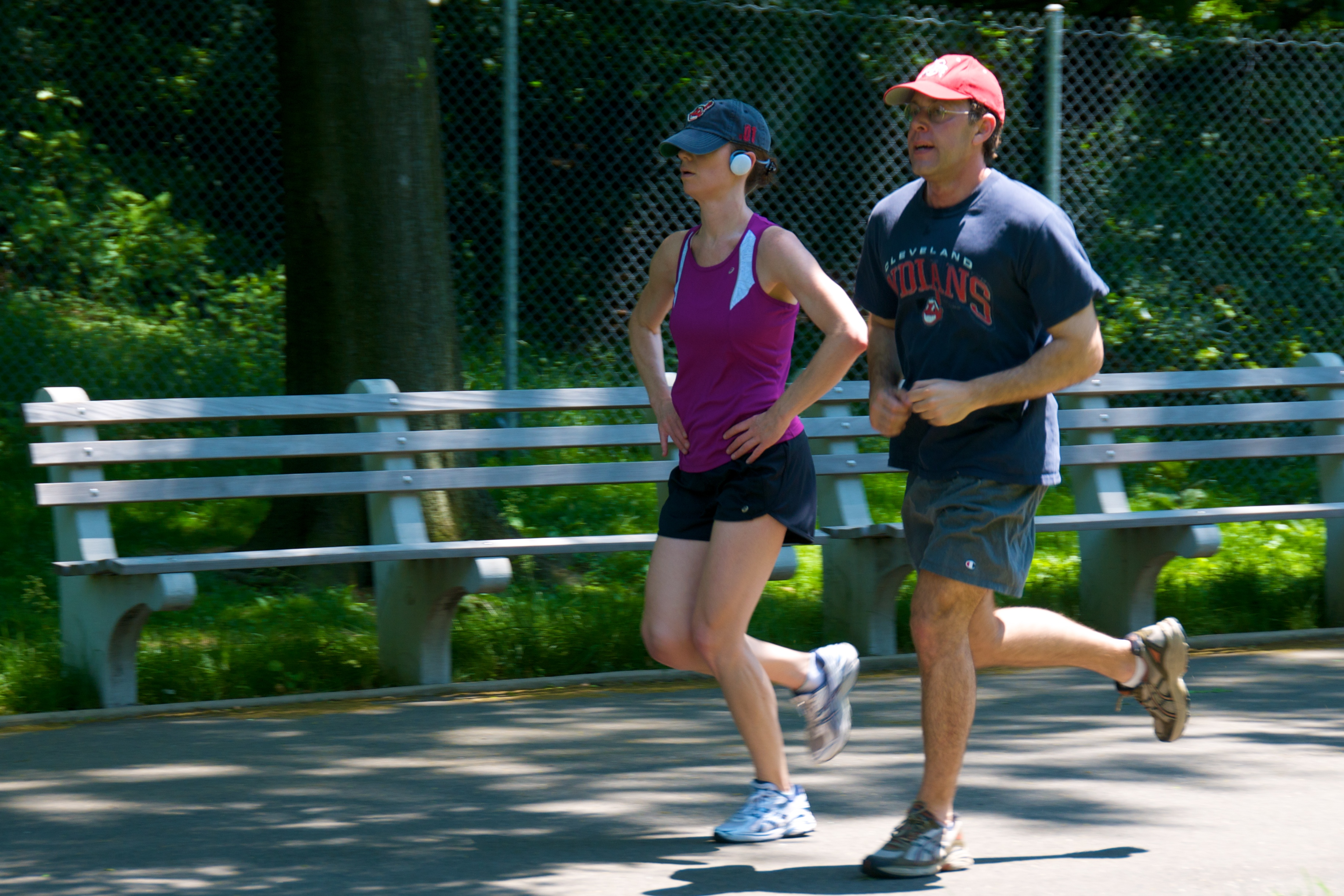 Sometimes it's simply a function of the weather: people dress differently, act differently, and are engaged in different activities in early spring than they do in summer or late fall. But much of it simply has to do with the incredible variety of people who take advantage of the opportunity to relax, read a book, jog, or picnic with their families. So ... this just happens to be what it looked like in Riverside Park on the last day of May, in 2009.